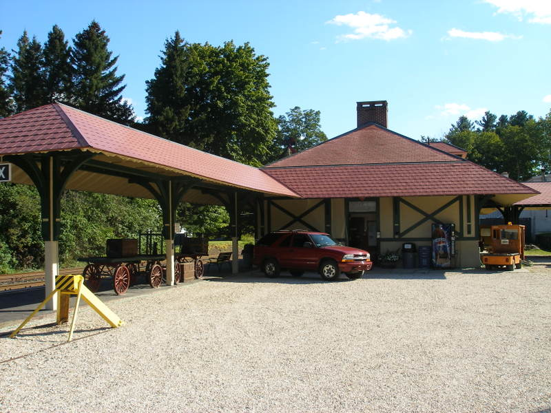 Rowan C. de la Barre